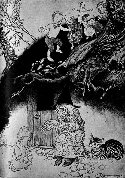 Image from The Book of Hallowe'en. Caption "The Witch of the Walnut-Tree."